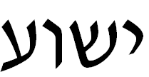 "Yeshua" ישוע , a Hebrew name written with the letters yod-shin-waw-`ayin of the Hebrew alphabet. It is found in the Hebrew of the Old Testament at Ezra 2:2, 2:6, 2:36, 2:40, 3:2, 3:8, 3:9, 3:10, 3:18, 4:3, 8:33; Nehemiah 3:19, 7:7, 7:11, 7:39, 7:43, 8:7, 8:17, 9:4, 9:5, 11:26, 12:1, 12:7, 12:8, 12:10, 12:24, 12:26; 1 Chronicles 24:11; and 2 Chronicles 31:15 (and also in Aramaic at Ezra 5:2). This is a shortened post-Exilic version of the name יהושע or "Joshua". For this reason, the name of Joshua son of Nun appears as ישוע (Yeshua) in Nehemiah 8:17, and as Ιησους (Iêsous or "Jesus") in the ancient Greek of Josephus and the New Testament (Acts 7:45, Hebrews 4:8), etc. Note that ca. 1600 Protestant Bible translators started to transcribe ישוע in the Old Testament into English as "Jeshua", but kept transcribing Ιησους in the New Testament into English as "Jesus", obscuring the connection between the equivalent Greek and Hebrew versions of the same name.